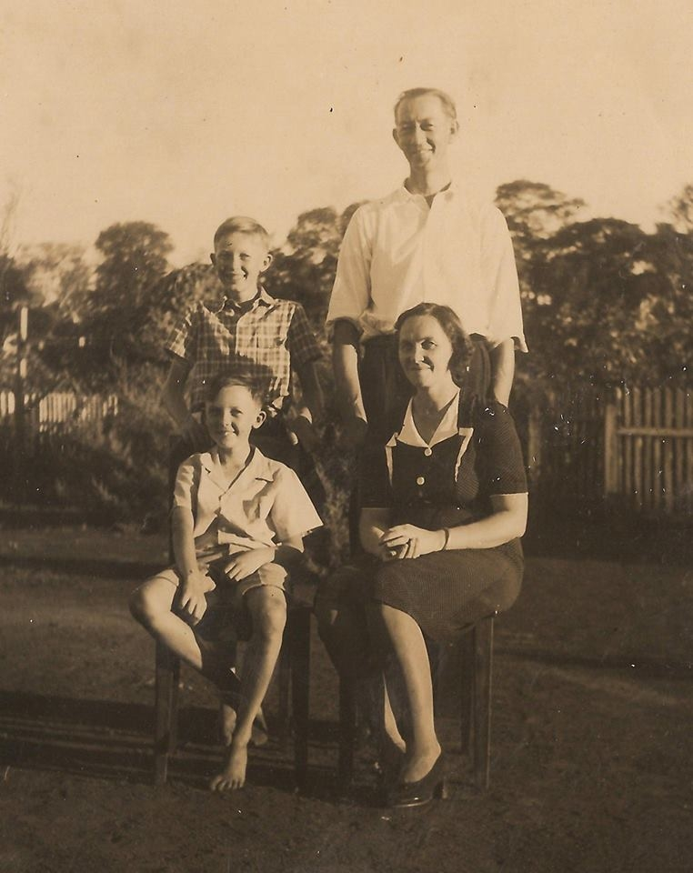 Family of Norwegians in Oberá, province of Misiones, Argentina. Pioneer Henry Oliver Kleiven with his wife Imgfrida and sons Sverre and Enrique Torbjörn.